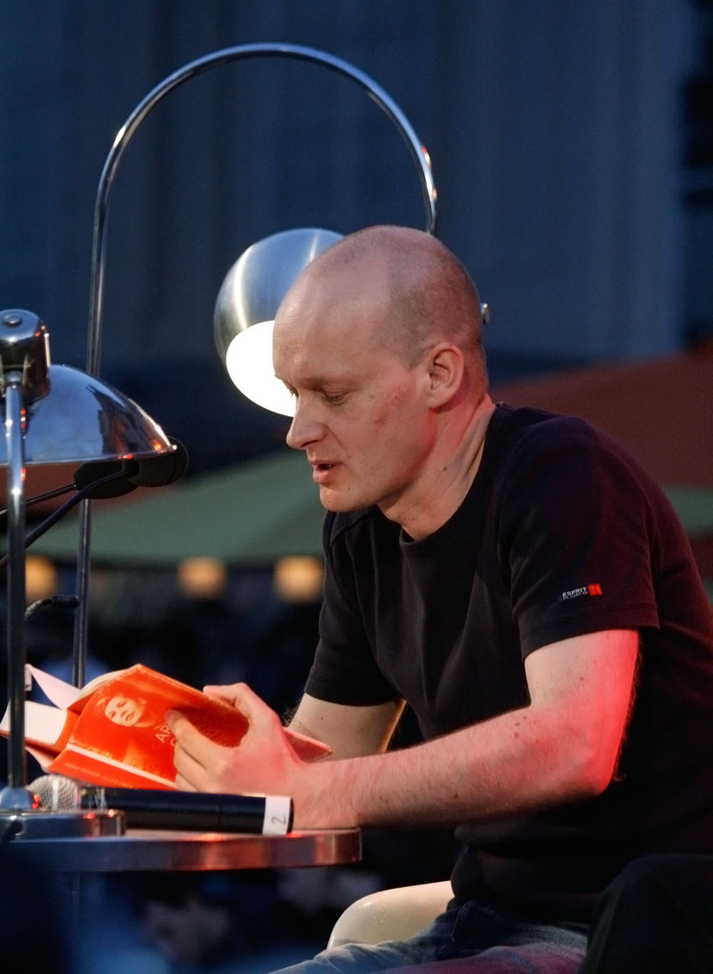 Writer Arno Geiger; reading at the literary festival O-Töne at the Museumsquartier in Vienna